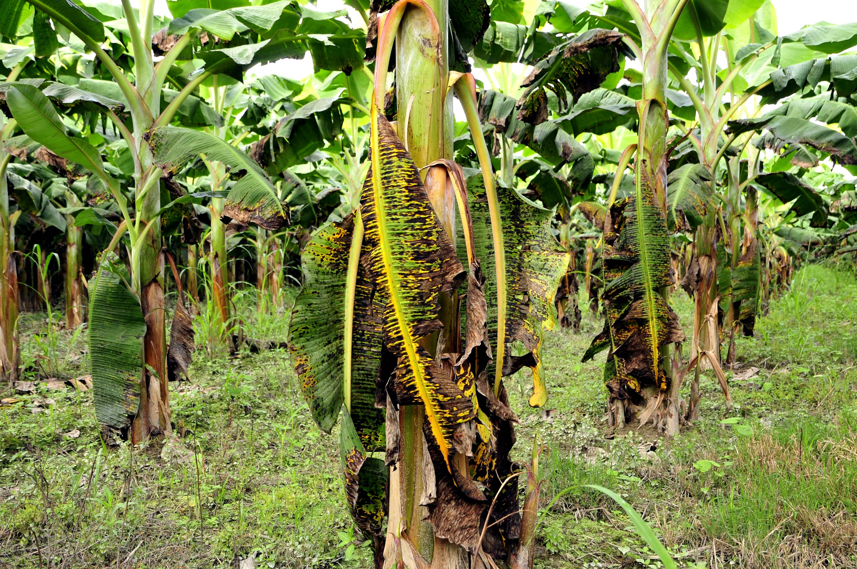 Pic by Neil Palmer (CIAT). Effects of the devastating black sigatoka fungus in plantain in Quindió, Colombia.